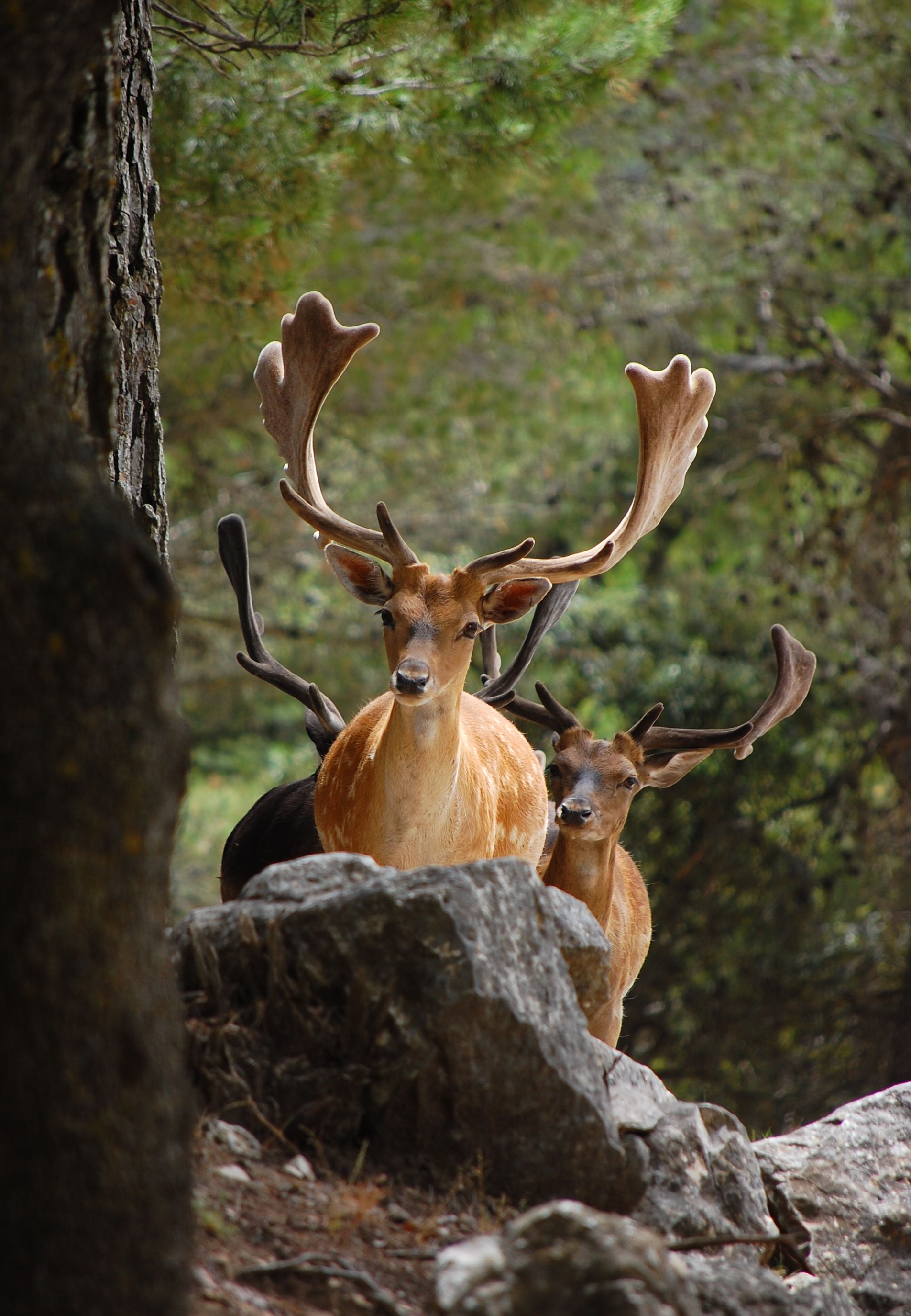 Safari Aitana, Spain. Nikon D40 with 55-200 VR